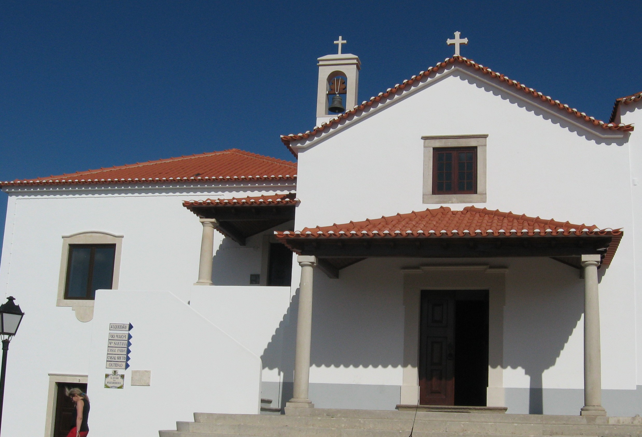 Alcobaça, Portugal, Mosteiro, Coutos de Alcobaça, former county of the Abbes, one of the 13 cities: Alvorninha, Igreja (church) of Misericórdia, 1605